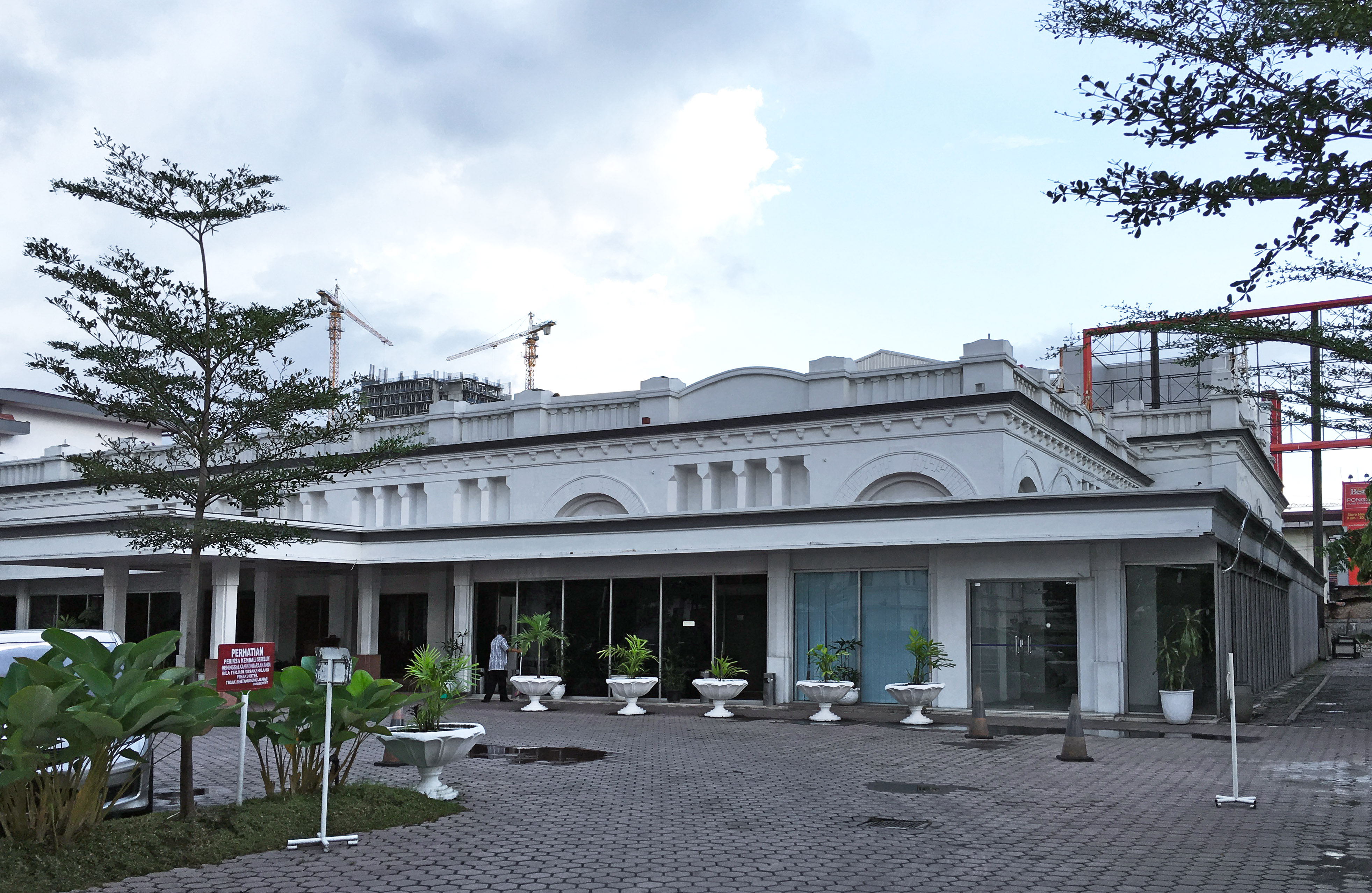 Dharma Deli Hotel, Medan. Formerly Hotel De Boer, opened in 1898. The original facade has been heavily altered with the addition of clumsy wings.